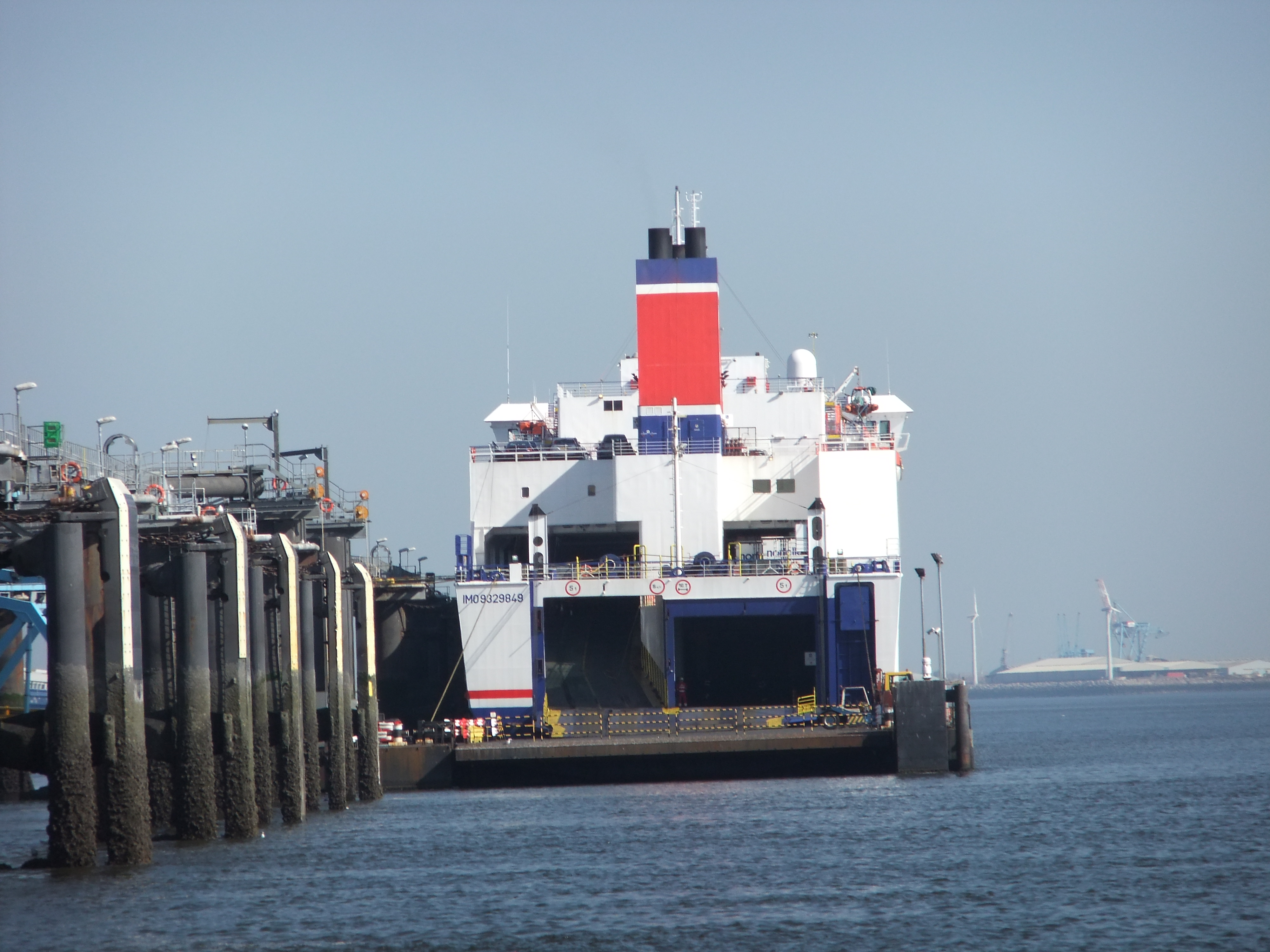 Rear of ropax ferry MS Stena Lagan at Twelve Quays ferry terminal, Birkenhead, Merseyside, England.